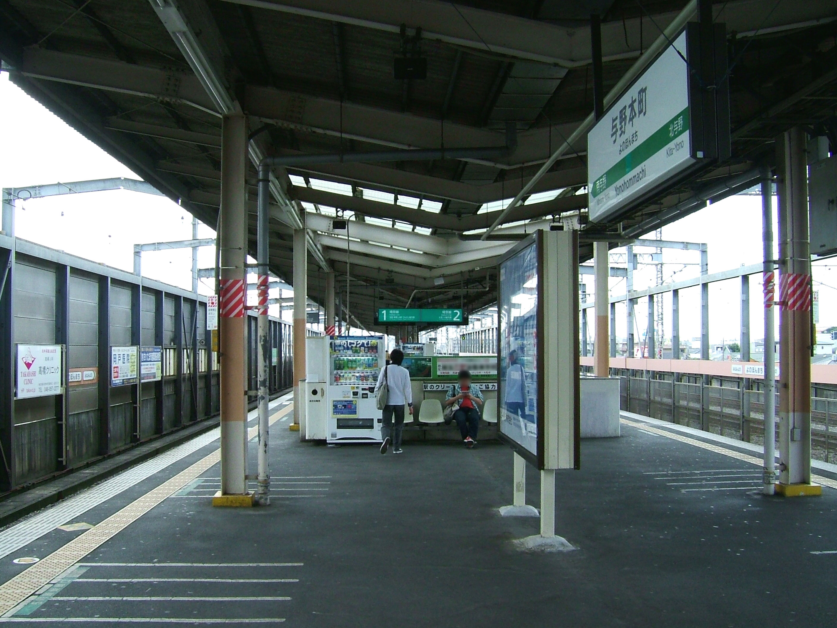 Yonohommachi Station platform (East Japan Railway Saikyō Line)